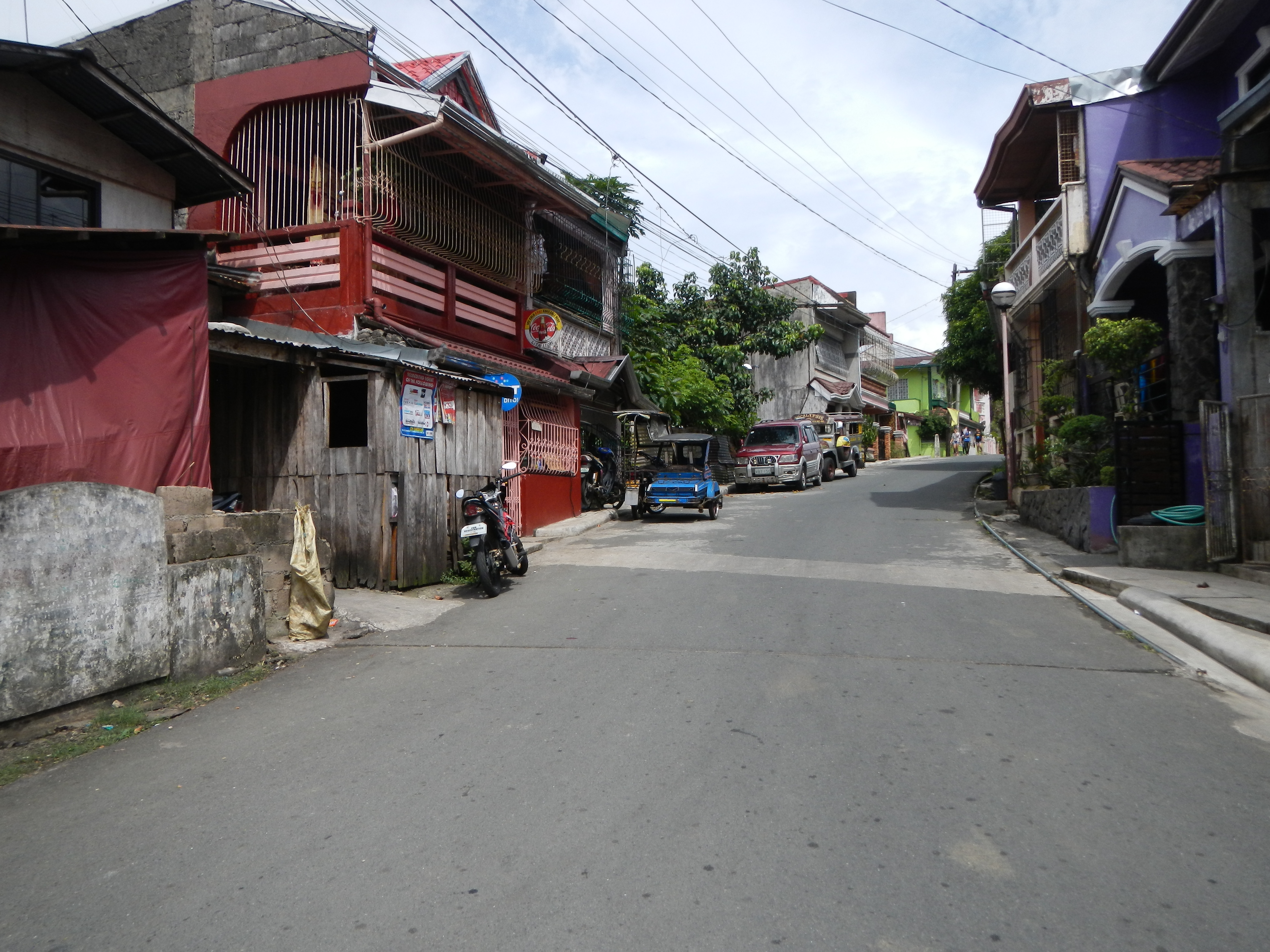 UploadWizard photos --- (general description) of (landmarks, heritage, culture, comprehensive, photography) of Cavinti, Laguna[1] – the -- Barangays Duhat and Poblacion [2] (situated in Laguna, Region 4, Philippines, its geographical coordinates are 14° 14' 38" North, 121° 30' 35" East - is a 3rd class municipality in the province of Laguna[3], Philippines, with an area of 25,770.7 hectares (63,681 acres), the largest town of Laguna, situated in the Sierra Madre mountain range, and part of the 4th congressional district of Laguna, with a population of 19,494.)[4] Cavinti National Bridge Coordinates: 14°14'49"N 121°30'9"E.